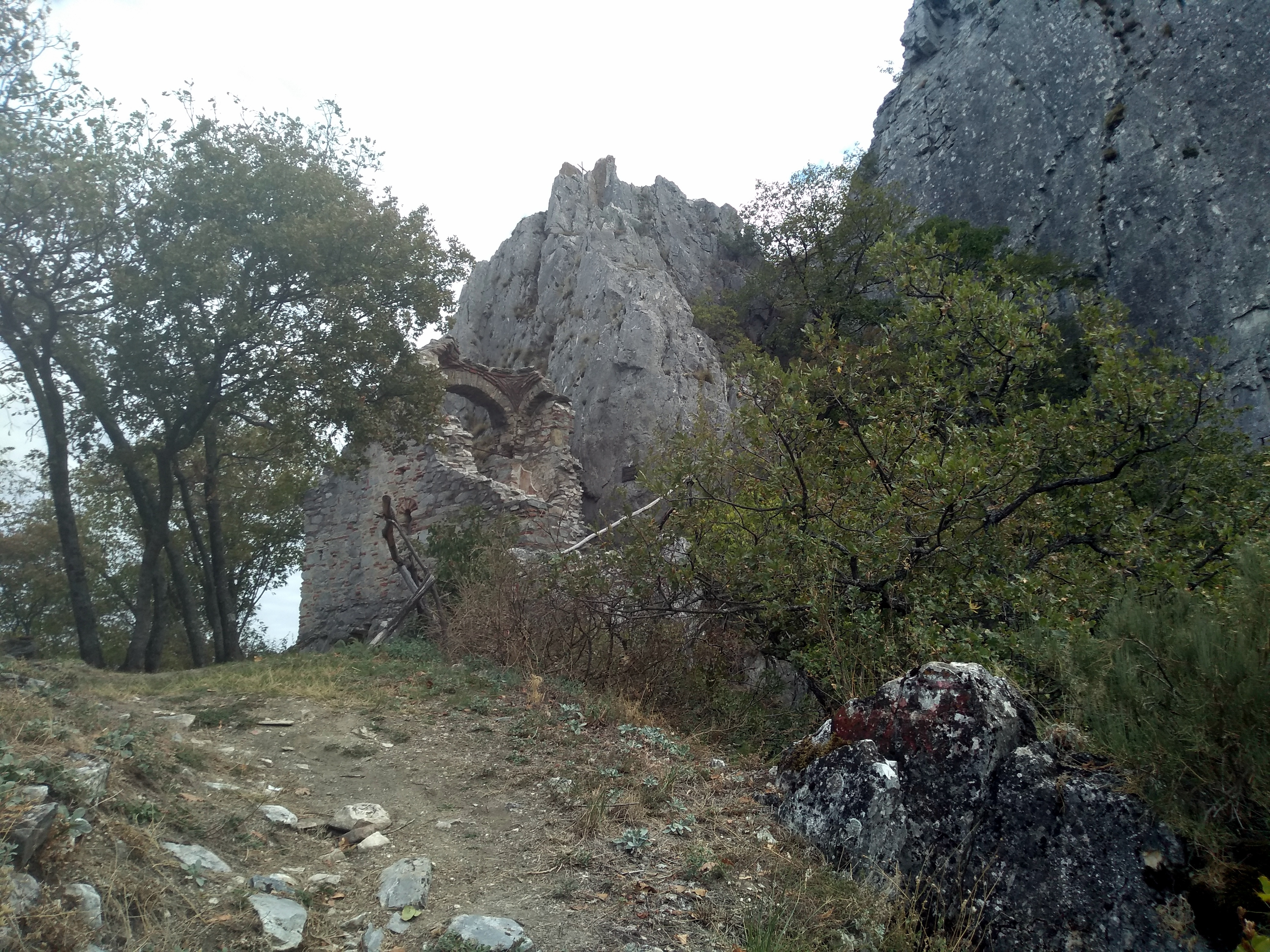 Ruins of St. Nedela Chruch in the medieval King Marco's town fortress in Matka Canyon, Macedonia